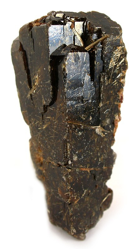 Xenotime-(Y) Locality: Novo Horizonte, Bahia, Northeast Region, Brazil (Locality at ) Size: 4 x 1.5 x 1.4 cm. This is a large and well-developed xenotime crystal with unusually good lustre, rich chocolate color, and unusually equant crystallographic form. As a final accent, we have inclusions of golden rutile in the xenotime, included 0.1 to 1 mm below the surface.